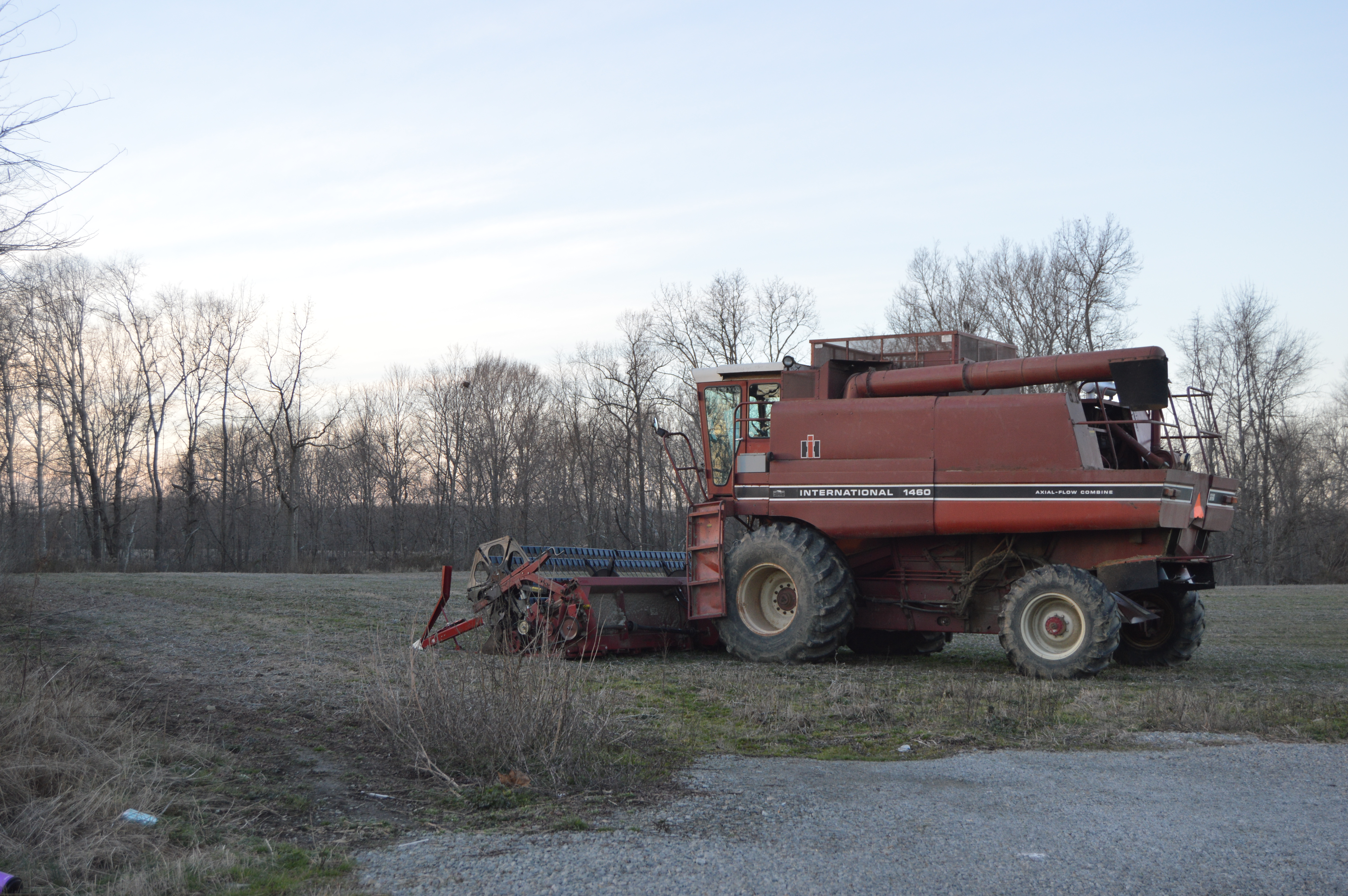 An International Harvester combine, model 1460, sits on the edge of a harvested field along Dorsey Road near its intersection with State Route 32, just west of the village of Winchester, in Winchester Township, Adams County, Ohio, United States.